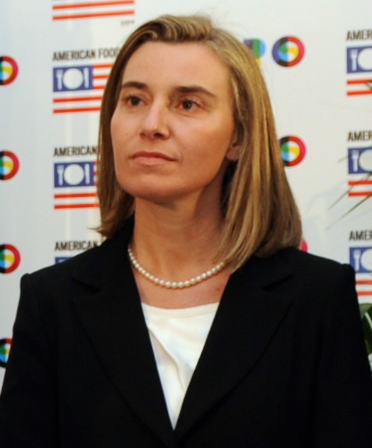 Federica Mogherini in 2014